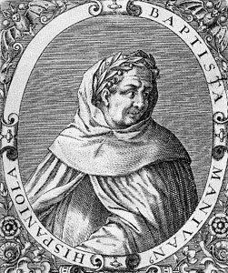 Baptista Mantuanus' portrait, from a 16th cent. edition of his works